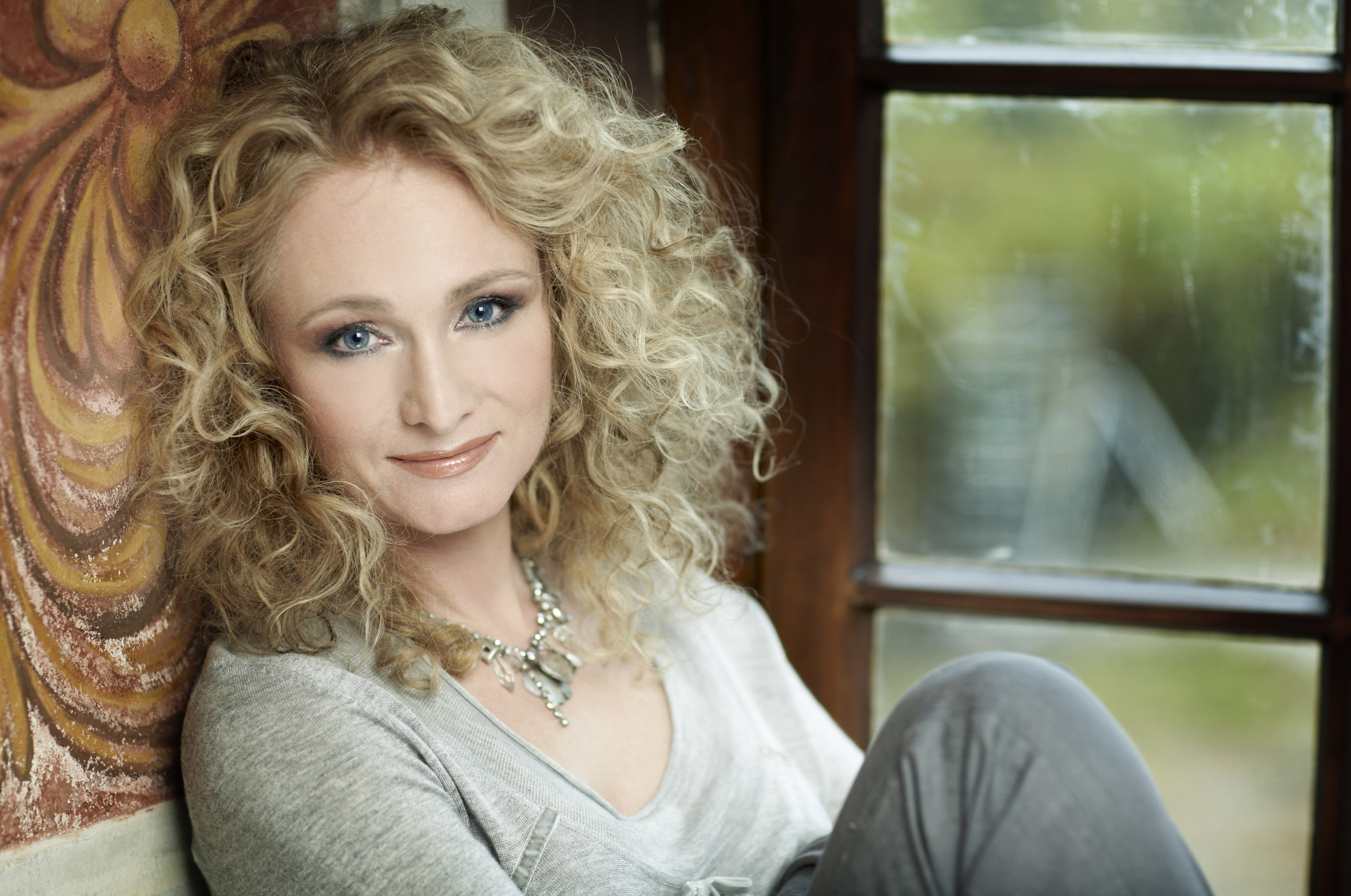 German recording artist Nicole